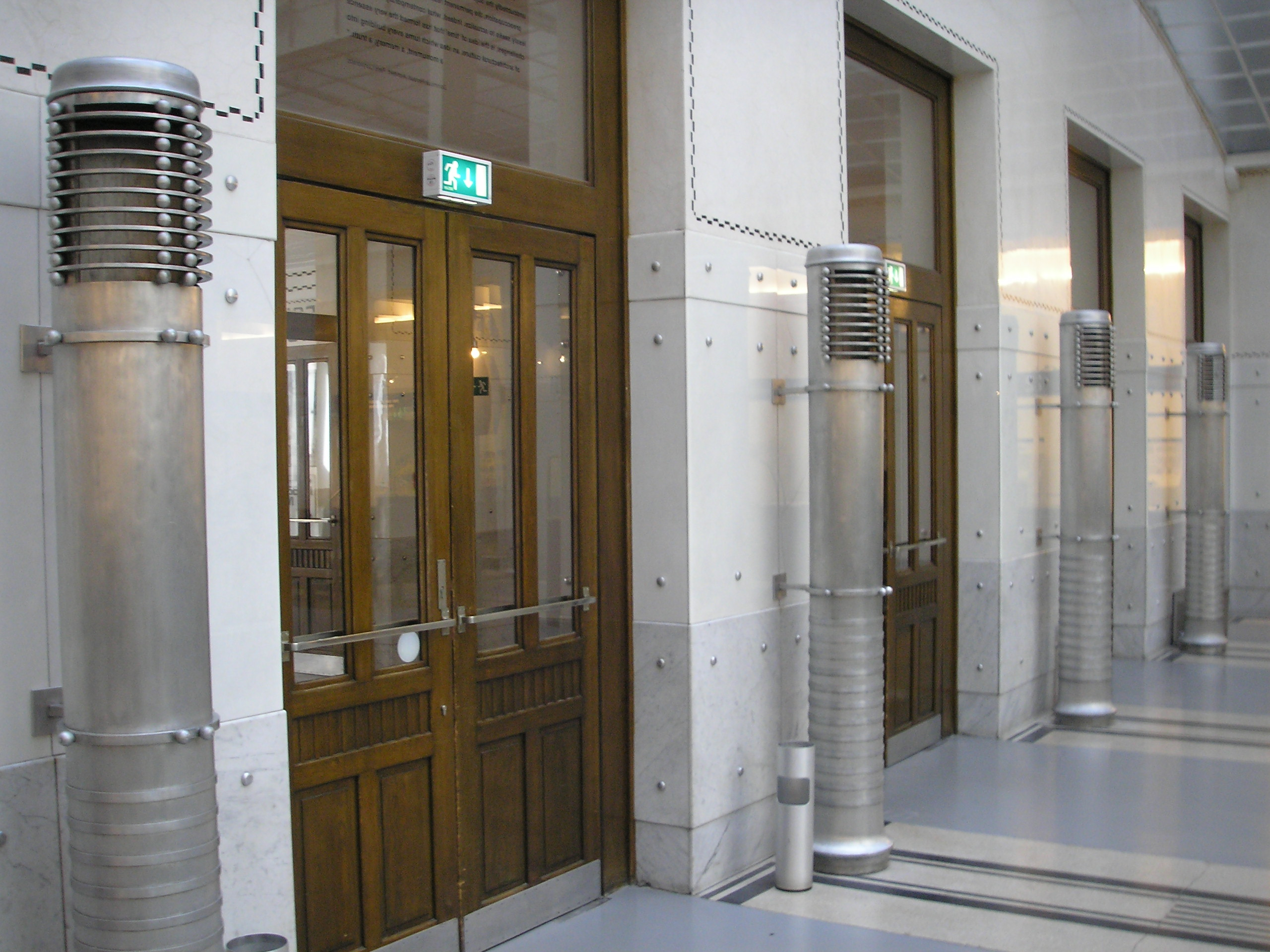 Detail image of the ventilation in the main hall of the Österreichische Postsparkasse (P.S.K.), constructed by Otto Wagner.